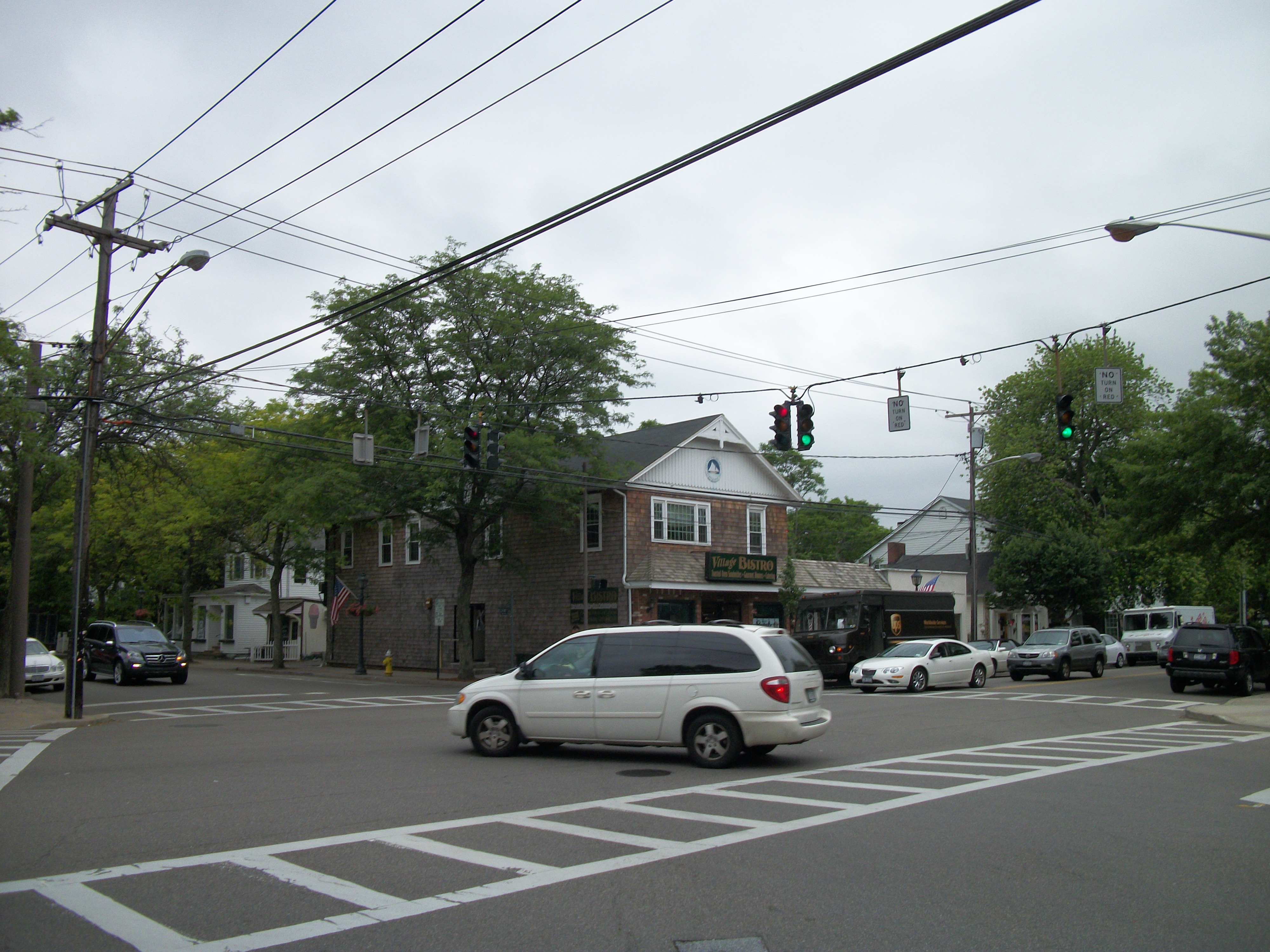 Station Road, facing Bellport Lane at the intersection of South Country Road and the Village Bistro, still only a small part of the Bellport Village Historic District in Bellport, New York. Normally, County Roads like South Country Road(Suffolk CR 36) and town roads have yellow traffic signals, but not in this case. Note the tiny ice cream shop and the 19th Century house behind the Village Bistro on Bellport Lane.